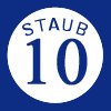 Rusty Staub's retired #10 with the Montreal Expos.